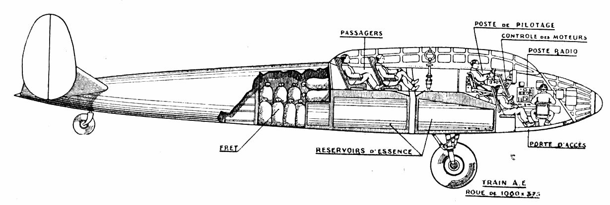 Amiot 356 cutaway drawing from L'Aerophile December 1942